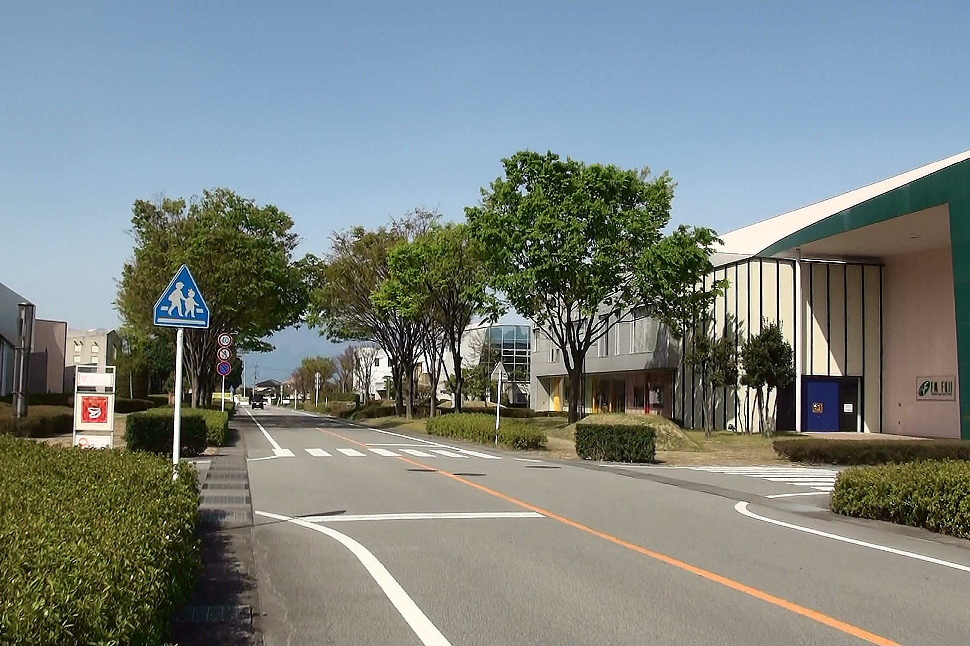 ARIA DI FIRENZ Union of Fashion City Kofu